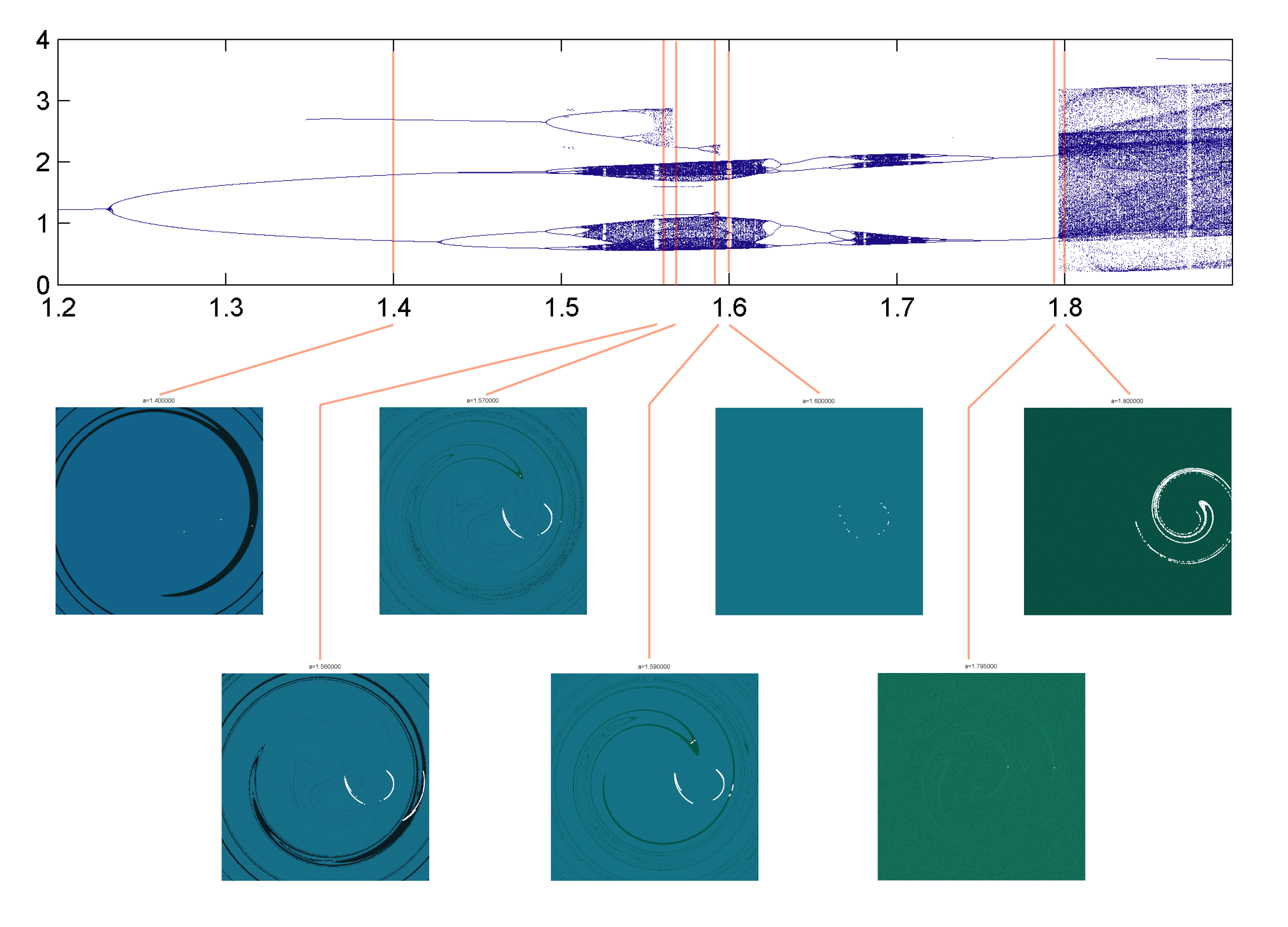 Bifurcation diagram and basins of attraction for attractors of the Ikeda map. The top diagram shows how the real part of iterates change depending on the control parameter. Period doubling bifurcations are clearly visible. For some parameter values multiple attractors coexist, and as the parameters change they suddenly appear or disappear (a crisis). In particular, the top attractor suffers a crisis near 1.56, merging with another attractor. This one disappears in a crisis near 1.59. A large strange attractor appears through a crisis near 1.79. The diagrams below show the basins of attraction (colour) and the attractors (white) for selected parameter values.The colours are calculated based on the mean orbit of points starting in a particular location: the swirls inside a basin seen for some parameter values indicate long chaotic transients.